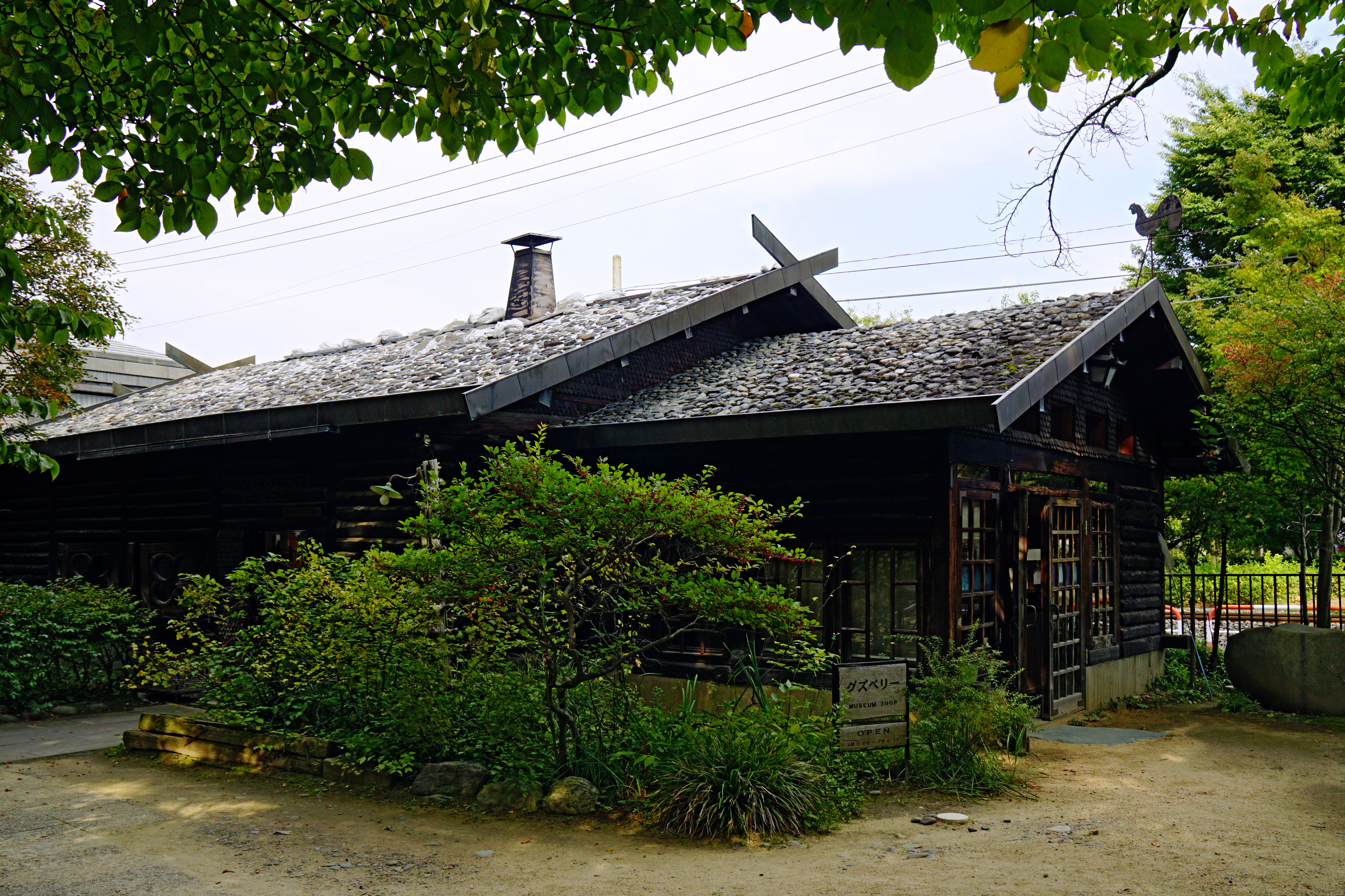 Rokuzan Art Museum in Azumino, Nagano prefecture, Japan